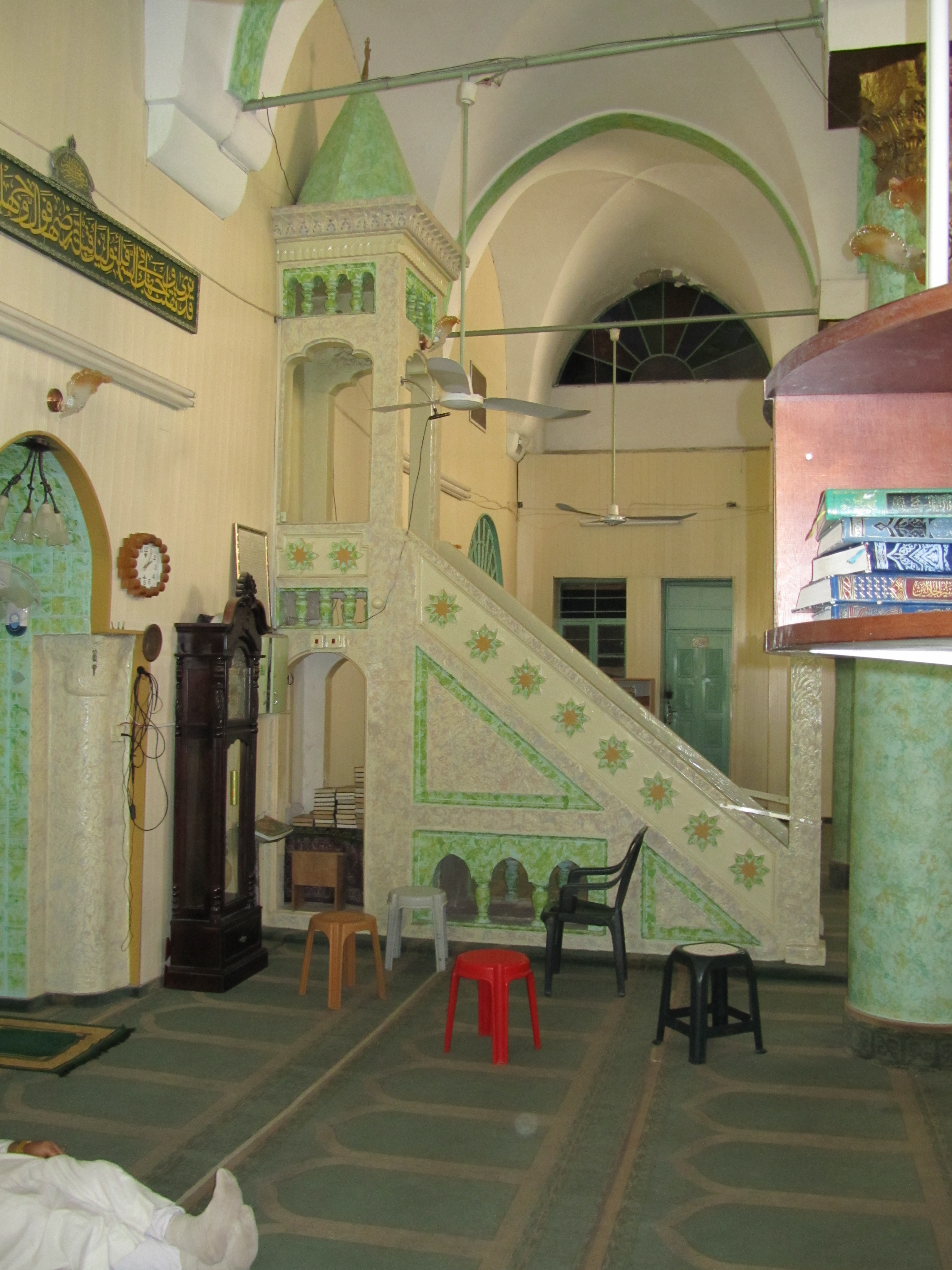 al-Hanbali mosque, Interior view, Minbar